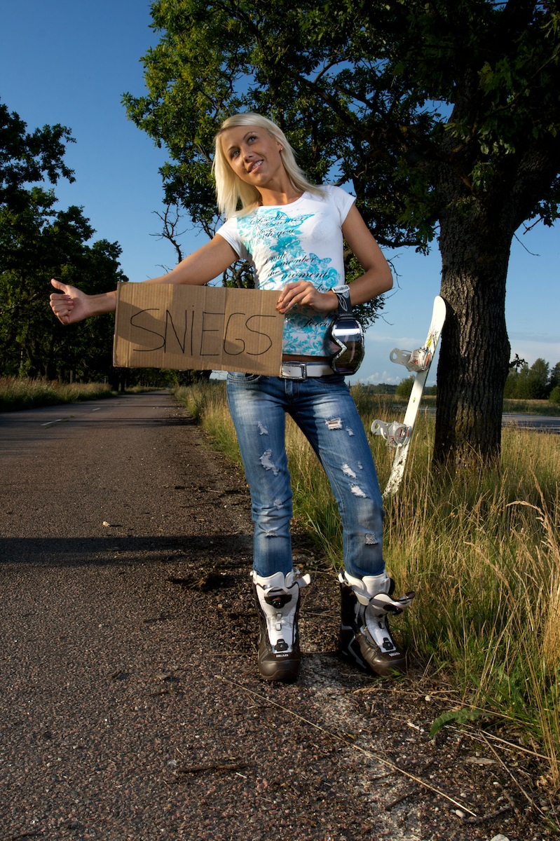 Blonde woman asking for a ride.